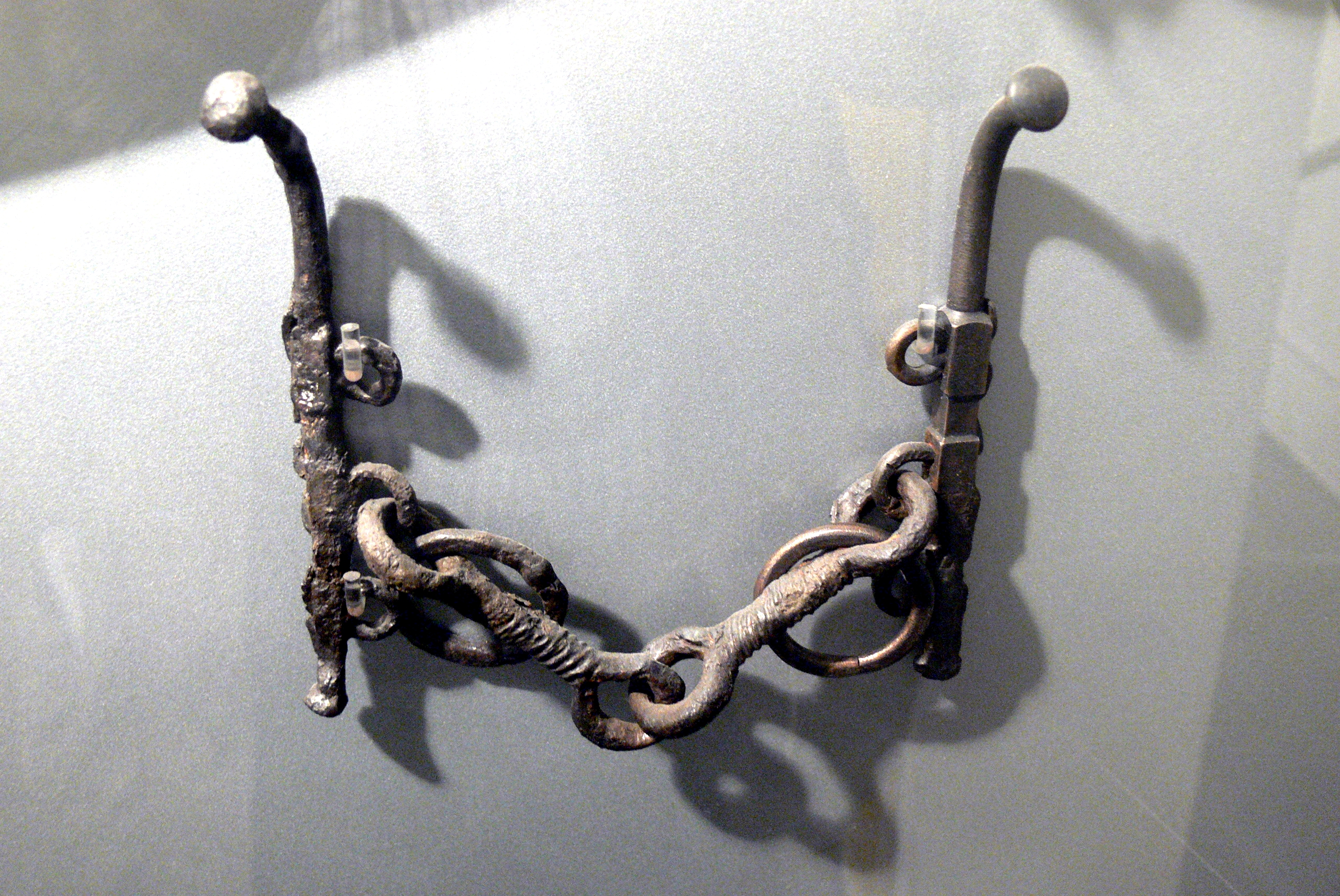 Archaeological museum Gunzenhausen ( Bavaria ). Hallstatt Culture ( 750-450 BC ): Horse equipment from Alfershausen - Horse bit.